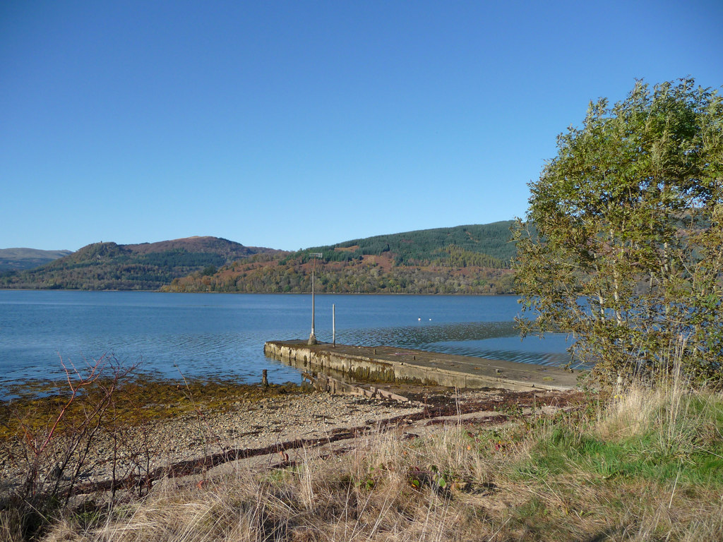 Jetty at St Catherine's A ferry ran between between Inveraray and St Catherines as recently as 1963, with a brief revival in 1998.